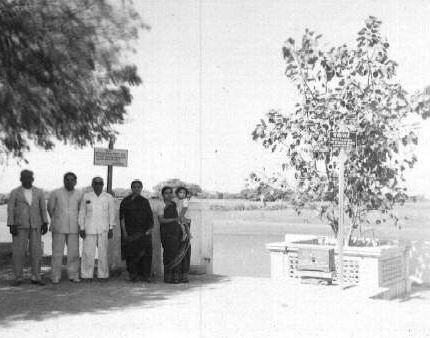 Photo taken by me using B & W film camera. Photo shows where Lord Krishna left his body,being killed by a hunter by mistake.